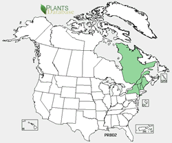 map